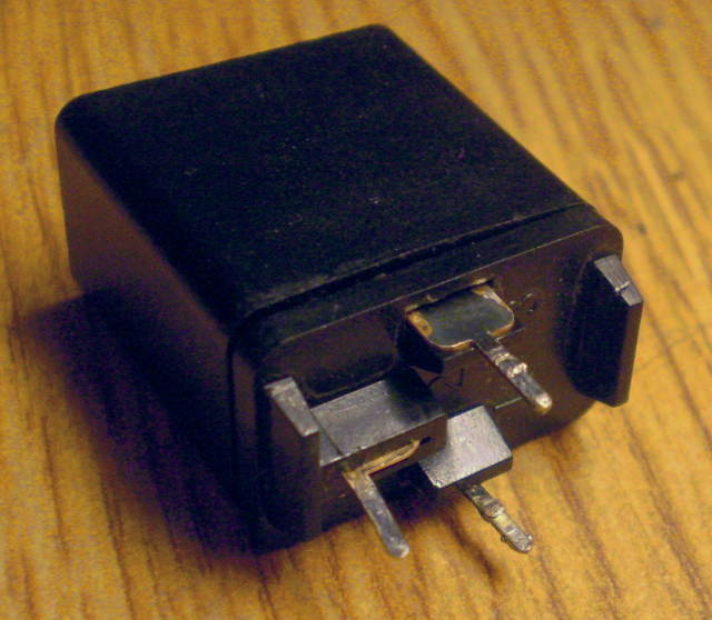 Resistor with positive temperature coefficient in a degaussing unit of colour cathode ray tubes